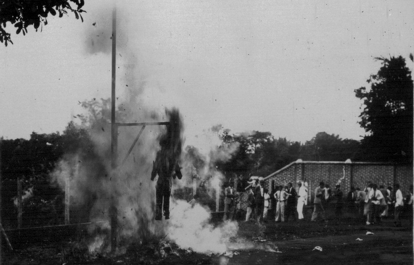 "Burning of Judas" at Academia do Comercio, Juiz de Fora, Brazil.